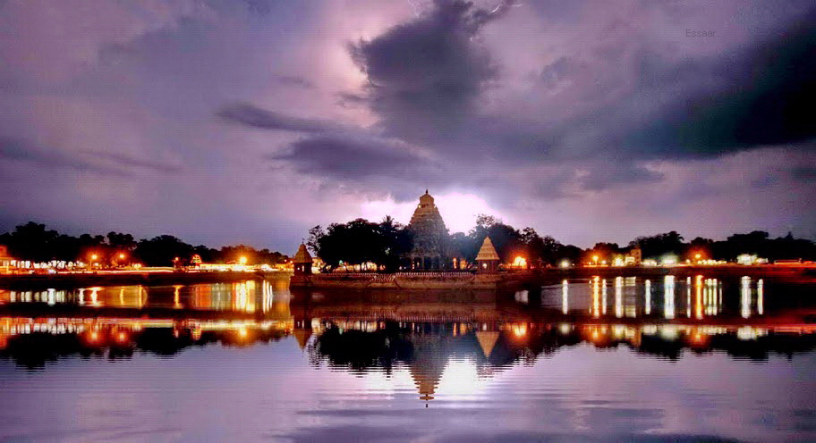 Teppakulam (aka Mariamman Teppakulam) is seen illuminated during an annual Festival in Madurai.